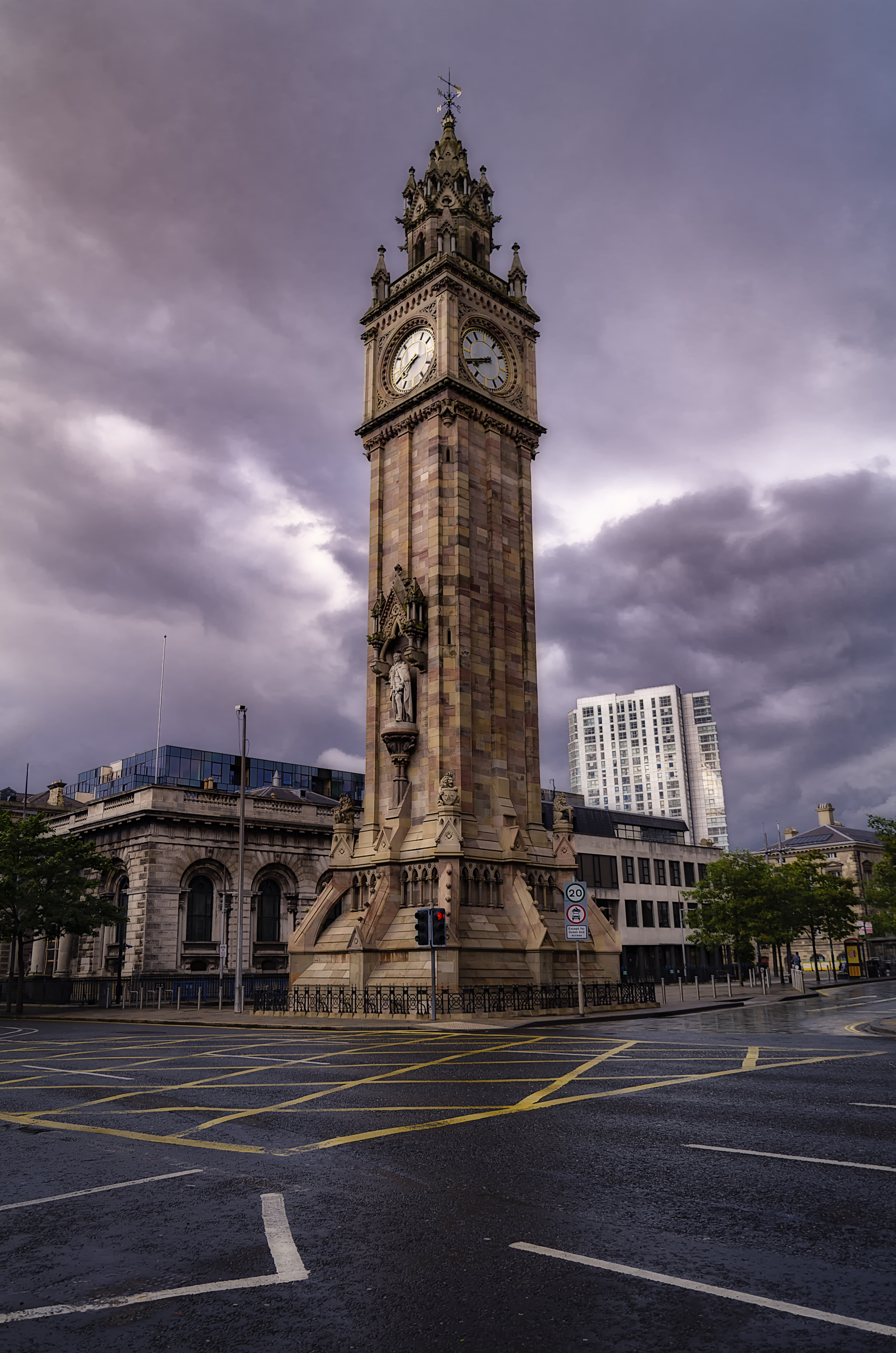 twenty to eight in the clock tower of the Albert Memorial